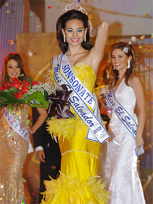 Irma Dimas al momento de ser coronoda Miss El Salvador, el 27 de febrero de 2005